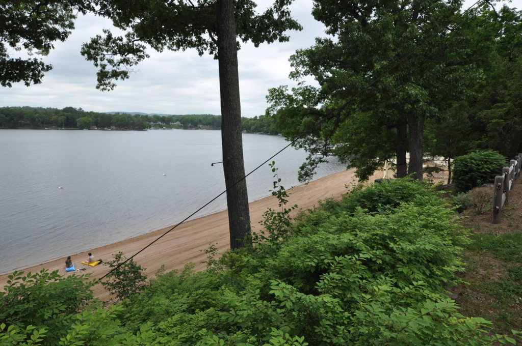 Babb's Beach, Suffield, Connecticut.